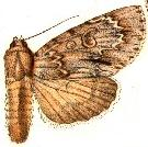 PLATE CXXV.